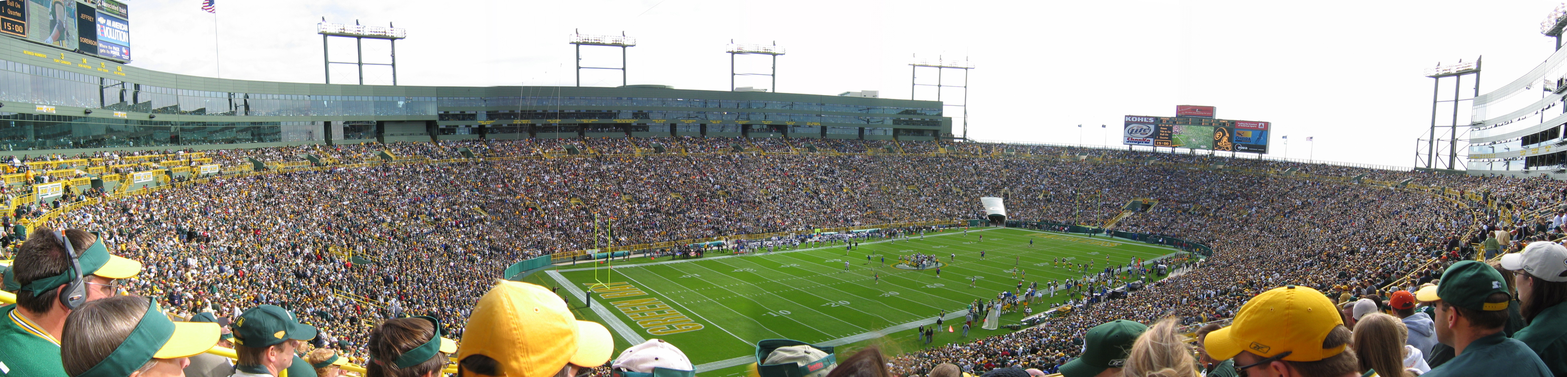 Panorama of Lambeau Field on October 3, 2004. The Green Bay Packers were playing the New York Giants. Pictures were taken by myself.